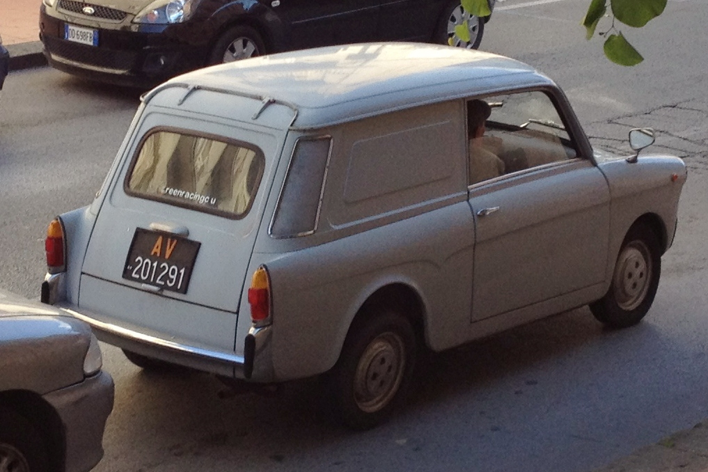 Autobianchi Bianchina Furgoncino tetto basso